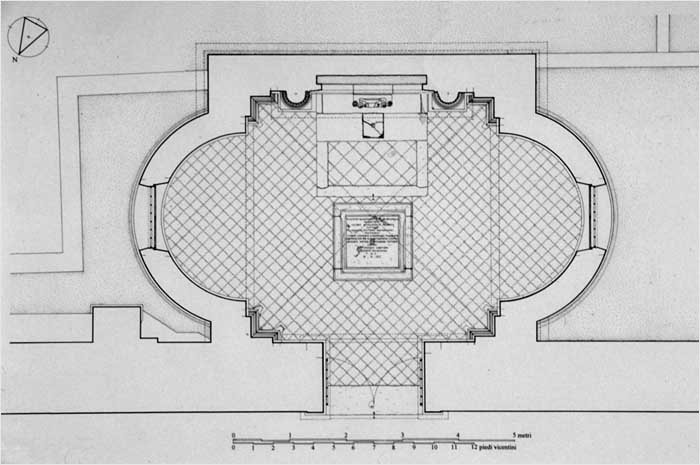 Church of Santa Corona in Vicenza, chapel Vamarana (in the cript) by Andrea Palladio, about 1576. Relief by Bouleau 1999.